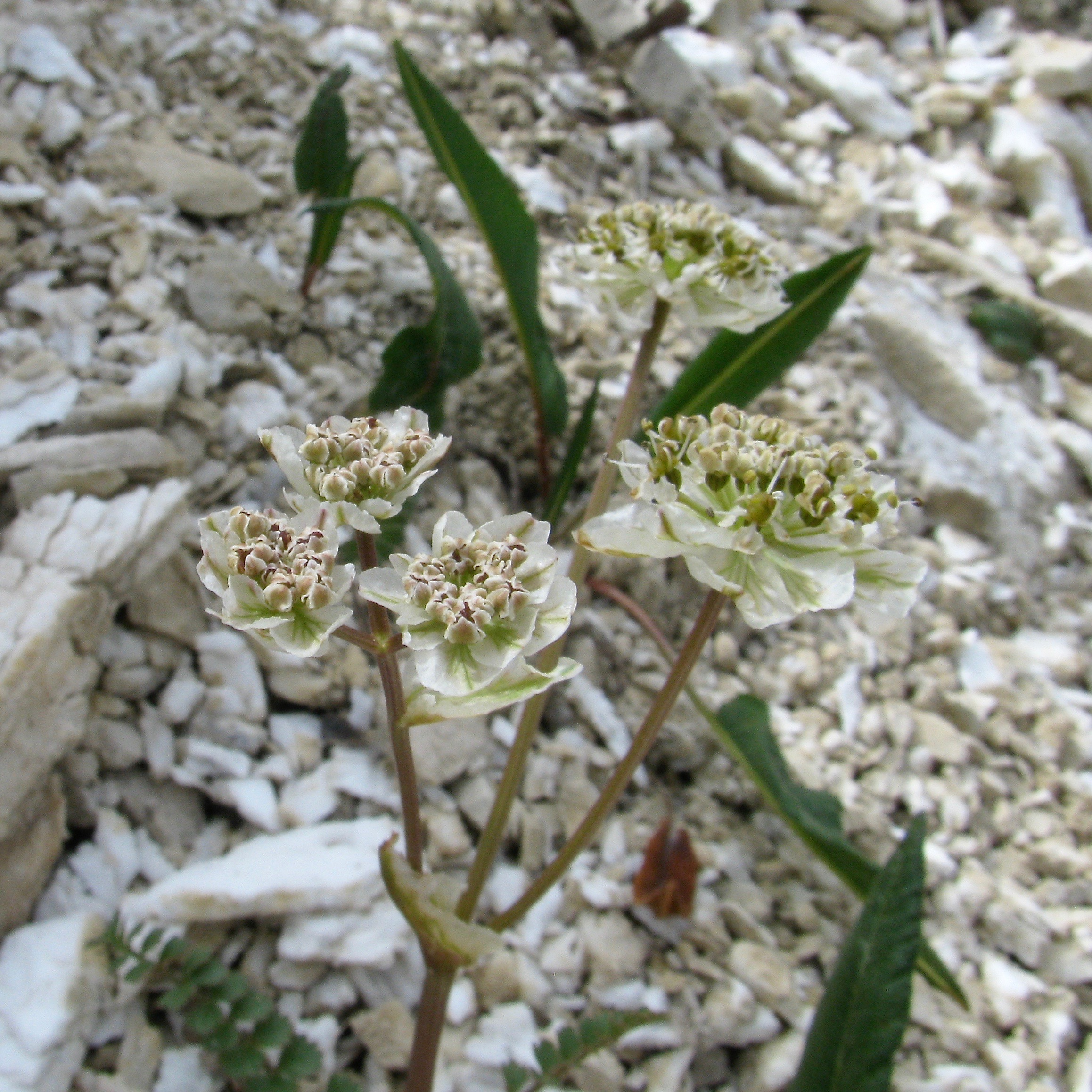 Kyrgyzstan, Osh region, Alay district, 150 km SE Osh Town, 7 km SW Ak-Bosaga village, Alay Range, Tashtyn-Bashi Ridge, Agachart River, 3400 m